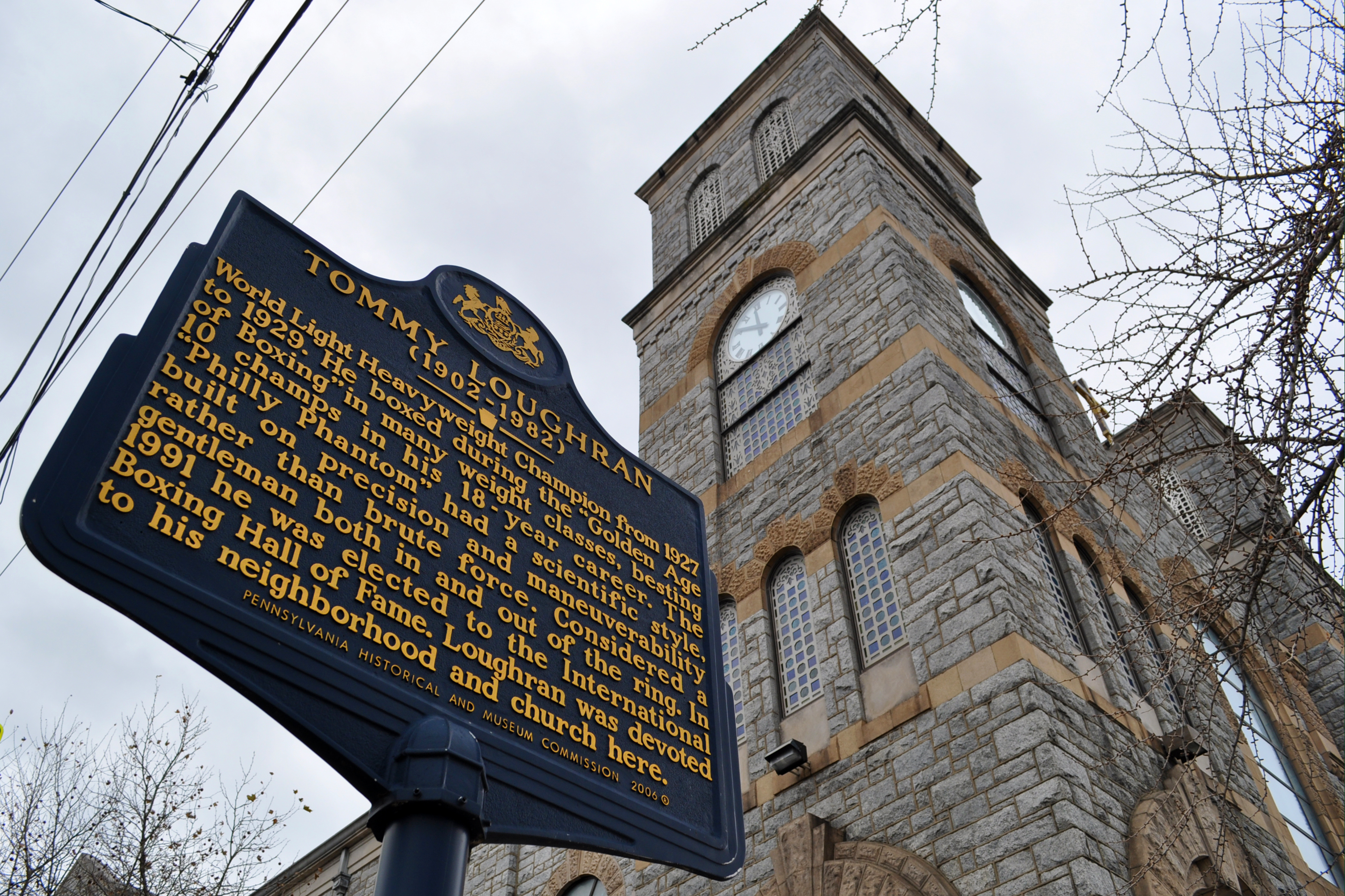 Tommy Loughran (1902-1982). World Light Heavyweight Champion from 1927 to 1929. He boxed during the "Golden Age of Boxing" in many weight classes, beating 10 champs in his 18-year career. The "Philly Phantom" had a scientific style, built on precision and maneuverability rather than brute force. Considered a gentleman both in and out of the ring. In 1991 he was elected to the International Boxing Hall of Fame. Loughran was devoted to his neighborhood and church here. (Historical Marker at 2400 S. 17th St. Philadelphia PA - Pennsylvania Historical and Museum Commission 2006)